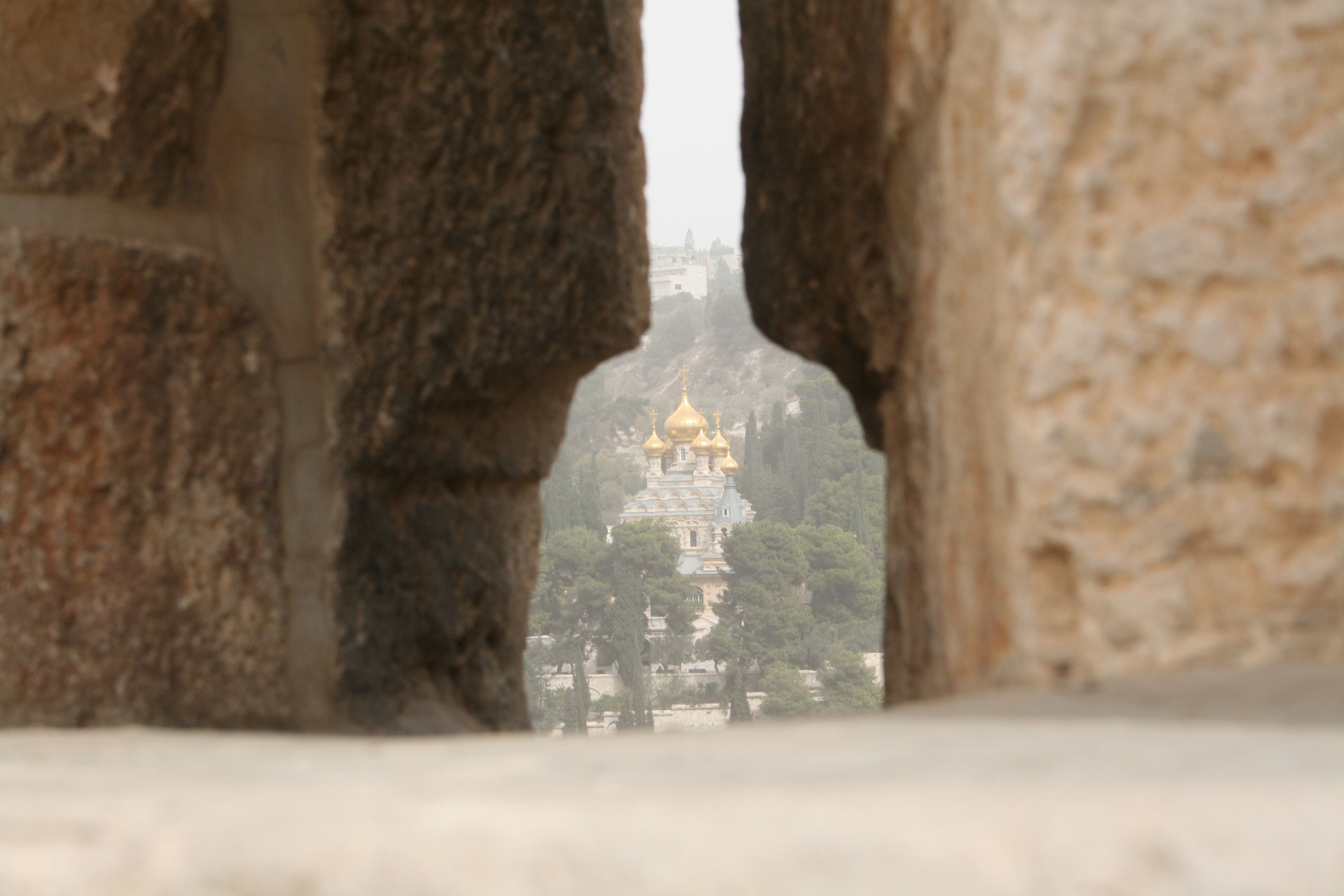 Saint Mary Magdalene Church, Jerusalem